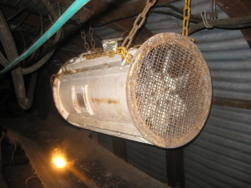 A tunnel ventilation fan in a coal mine, possibly in Apedale